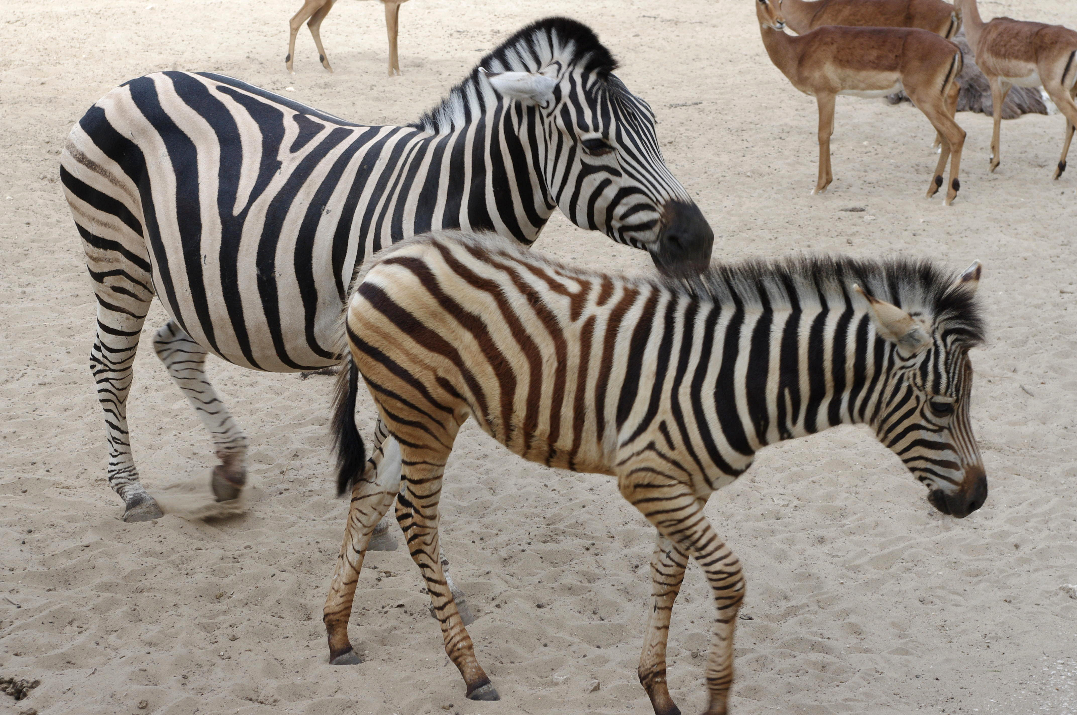 La Palmyre zoo, France. Chapman's zebra. Young born 6.5.2015